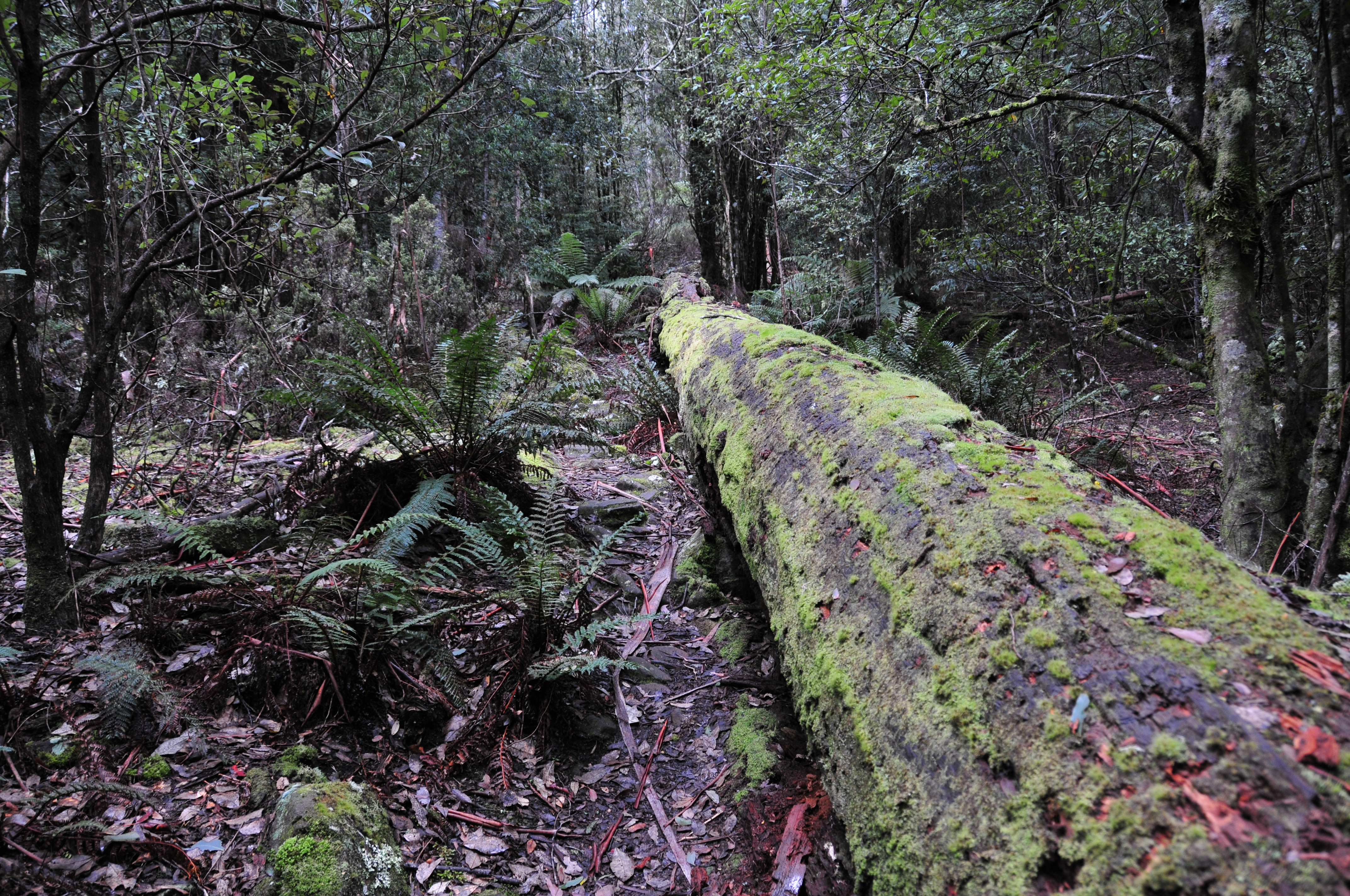 Walking trail up Quamby Bluff, Tasmania, Australia